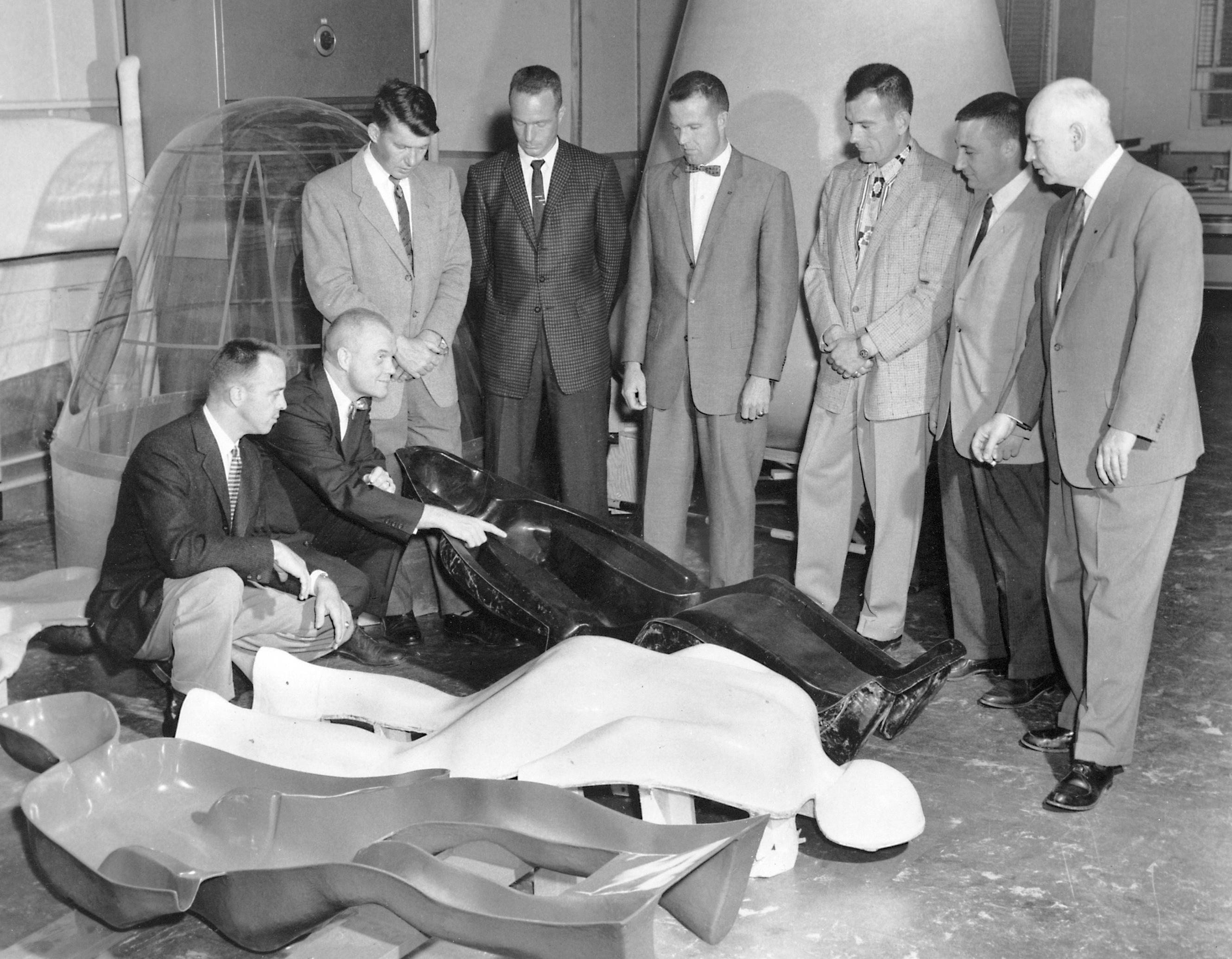 The Mercury 7 astronauts examine their 'couches.' Each astronaut's couch was molded to fit his body to help withstand the G-loads of the launch. Plaster casts of the astronauts were created in order to properly mold the couches. Left to right are Alan Shepard, John Glenn, Walter Schirra, Scott Carpenter, Gordon Cooper, Deke Slayton, Gus Grissom and Bob Gilruth. Gilruth was director of the Space Task Group, which planned and managed the Mercury Project.